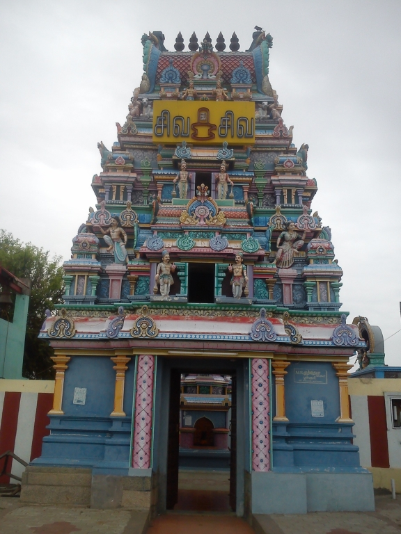 front view